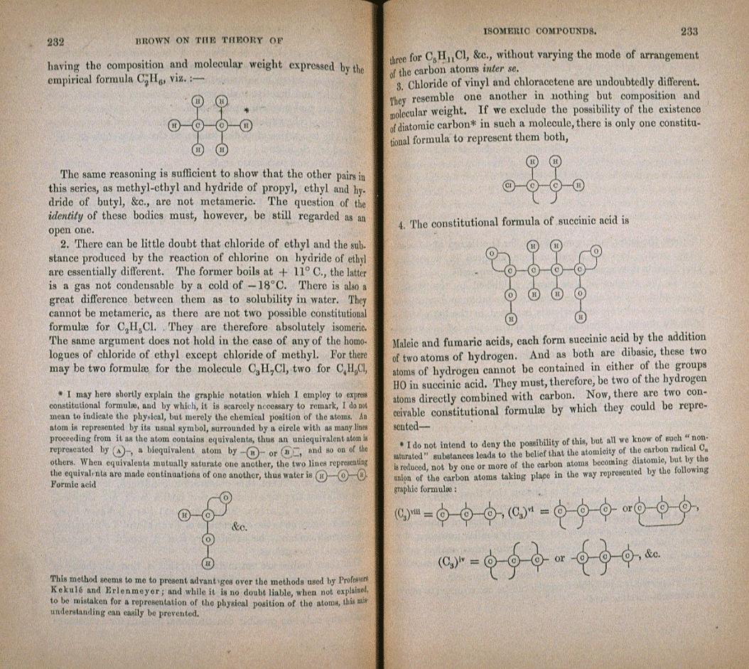 A photograph of Crumb Brown paper